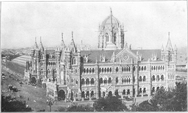 The famous Victoria Station (Chhatrapati Shivaji Terminus) in Bombay.